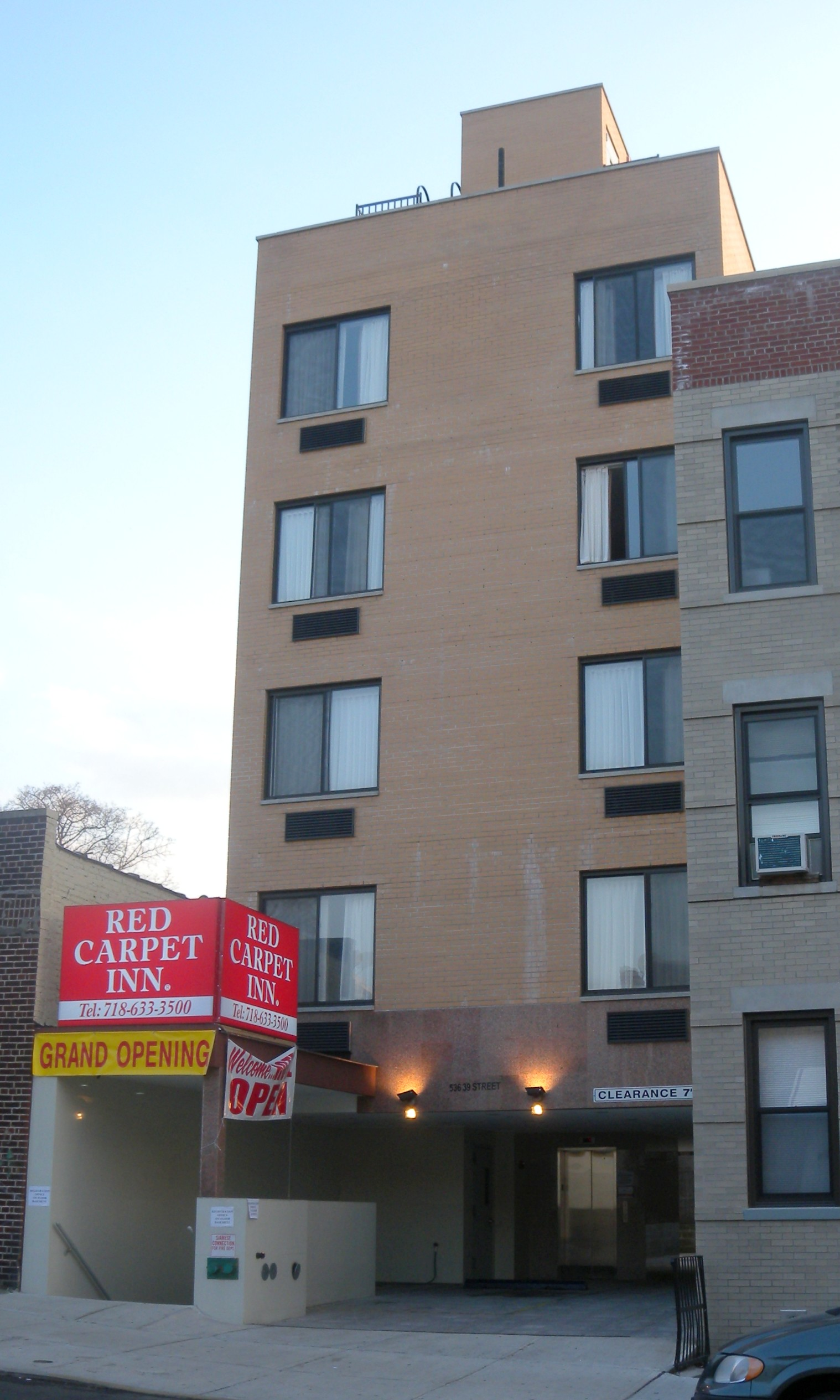 Looking south across 39th Street at new Red Carpet on a sunny late afternoon.